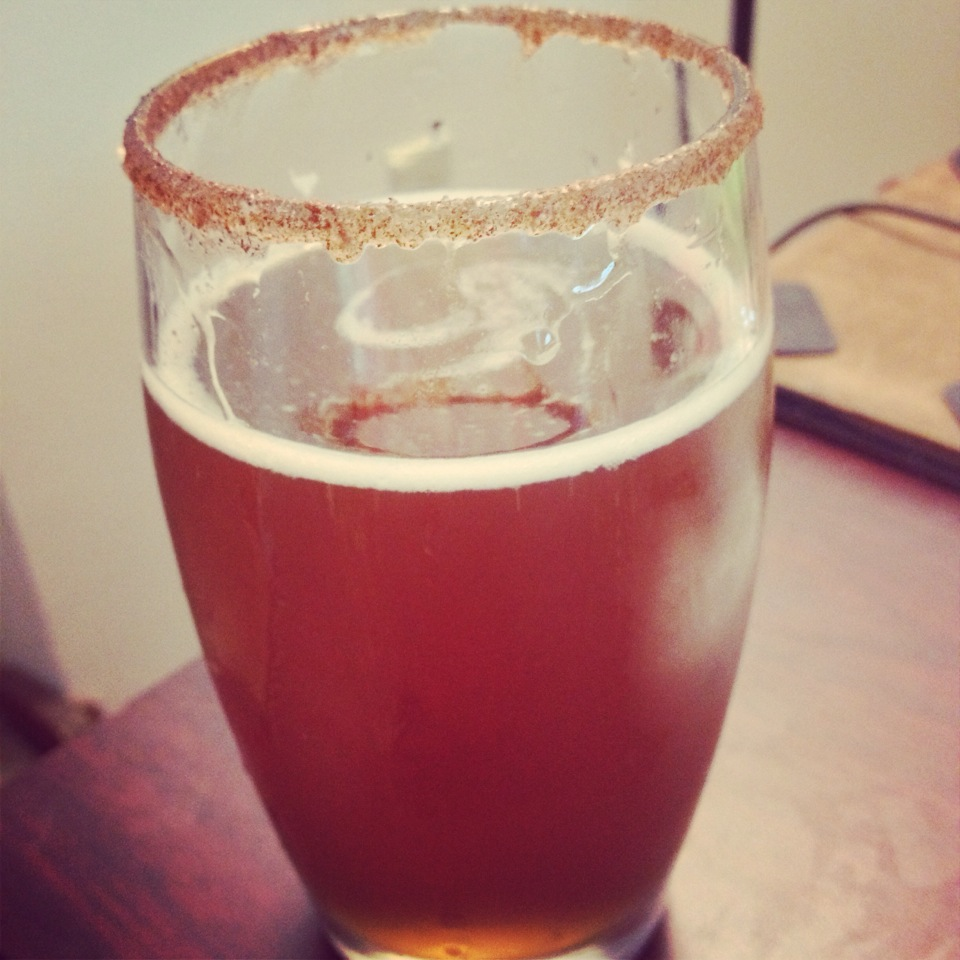 Jack-O Traveler Pumpkin Beer with a Cinnamon Sugar Rim